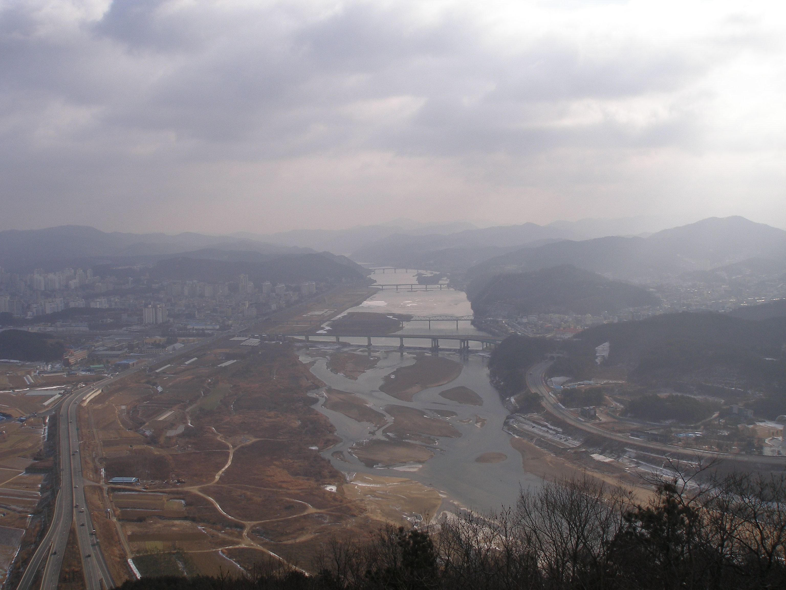 Looking Geum River and Gongju city at_Yeonmisan